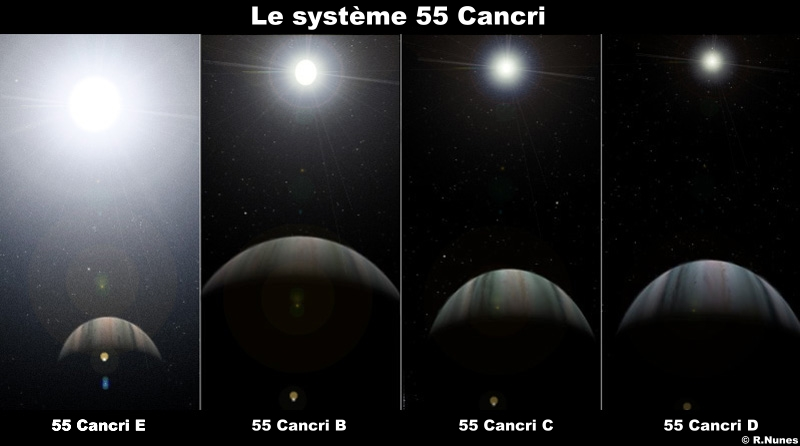 55 cnc system planets (more specifically